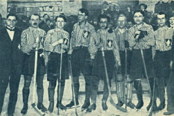 Bohemia national ice hockey team in 1914, European Championship. From the left: Václav Pondělíček, Jan Fleischman, Karel Pešek "Káďa", František Rublič, Jaroslav Jirkovský, Karel Wälzer, Josef Páral a Jan Palouš.